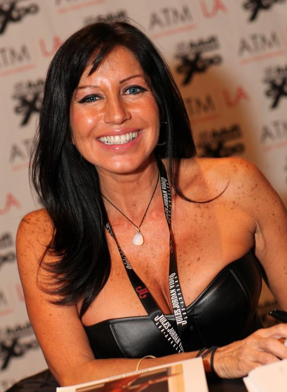 Tara Holiday signing autographs at the Hard Rock Hotel.